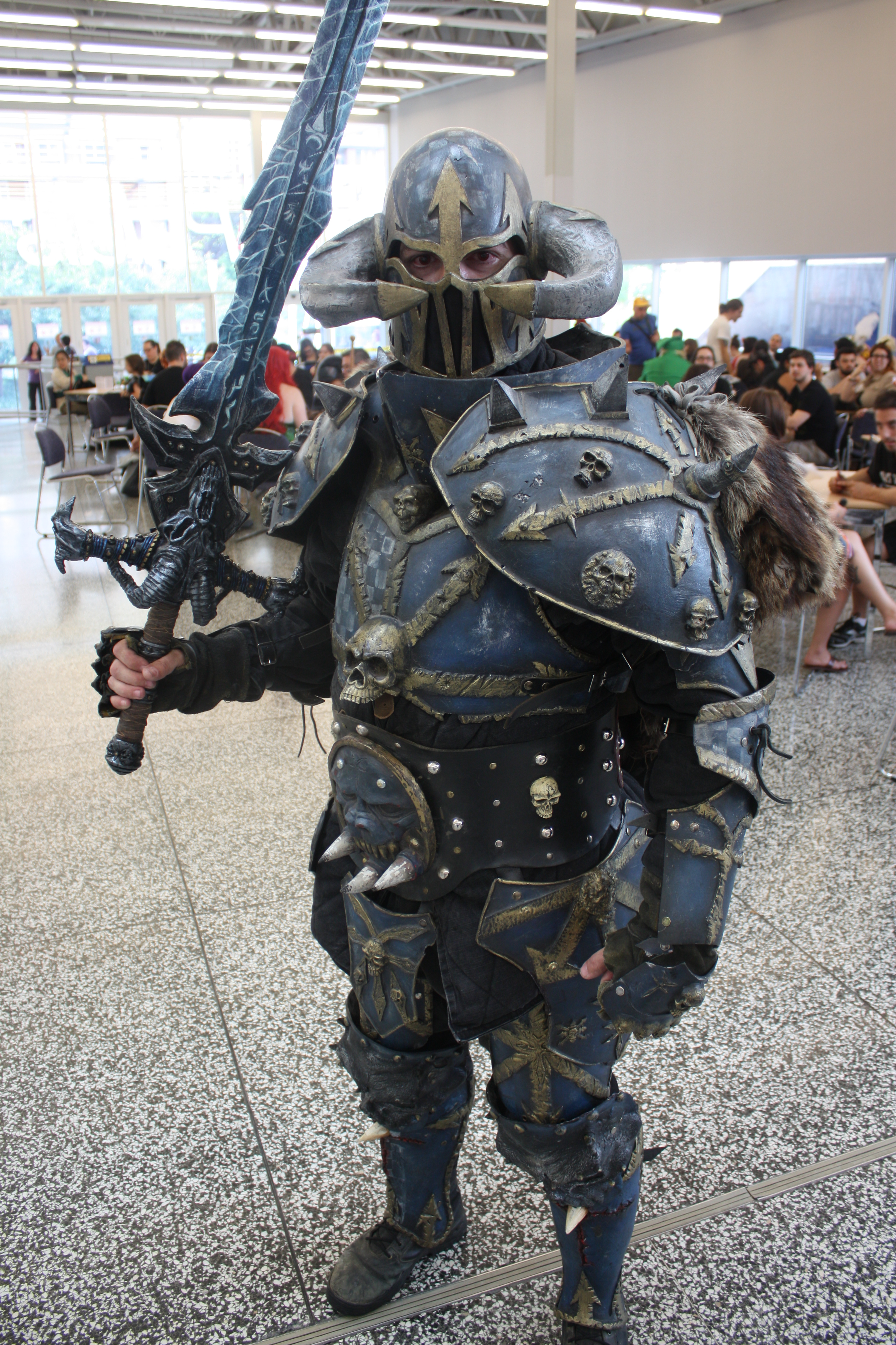 Cosplay one day two of Montreal Comiccon 2015.